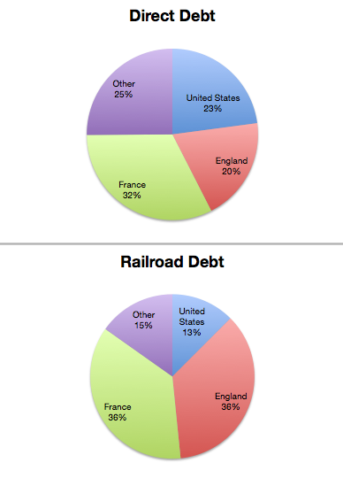 This chart shows the composition of Mexican national and railroad debt as of 1922 by the nationality of the debtholder.